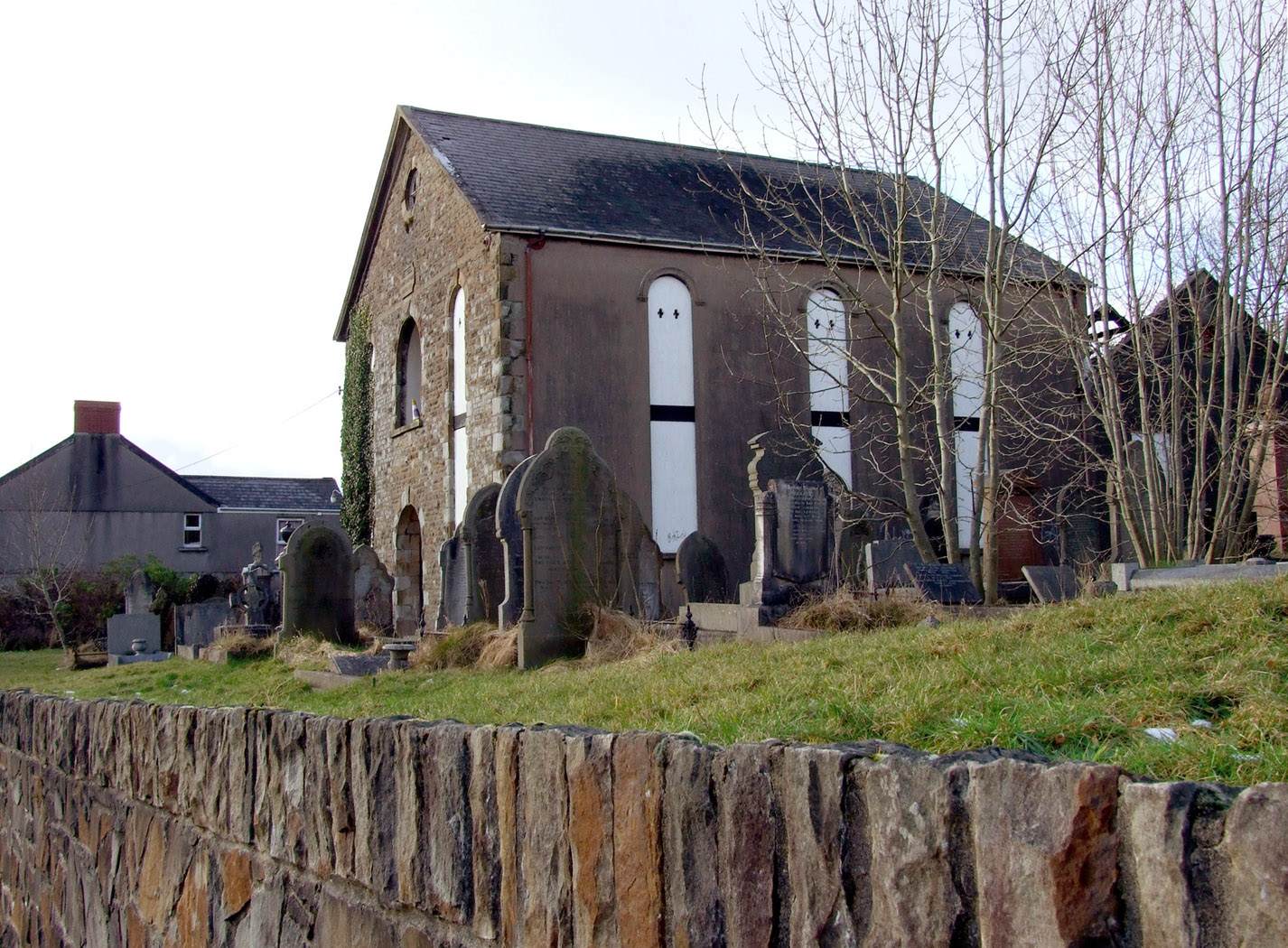 Bethel Church in Gowerton, Swansea